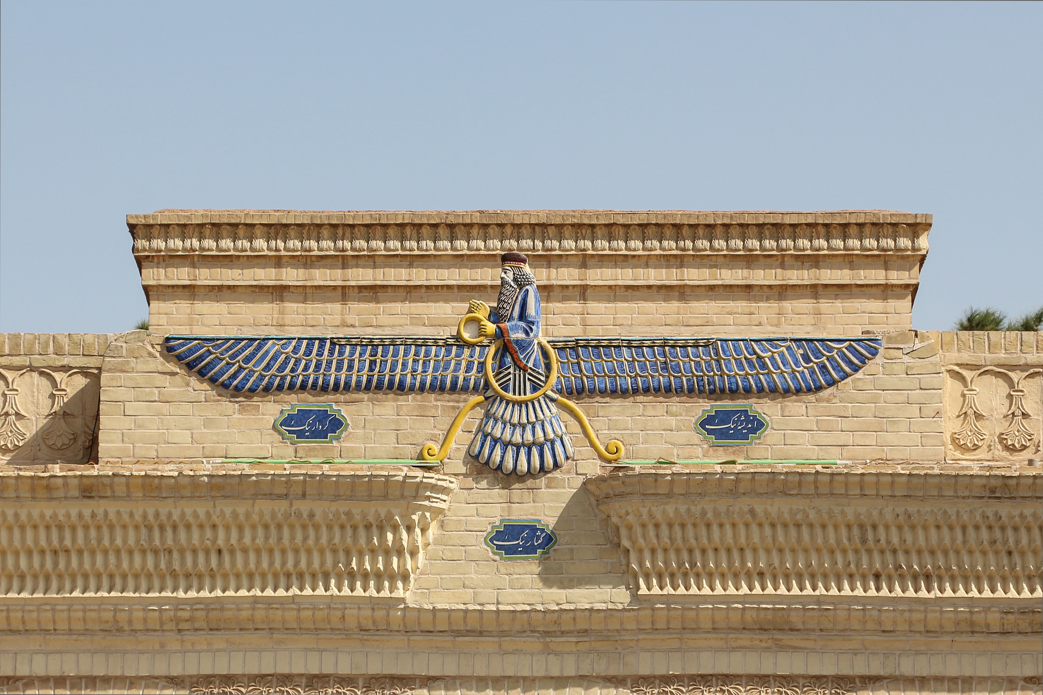 Faravahar symbol on Fire Temple of Yazd, Iran